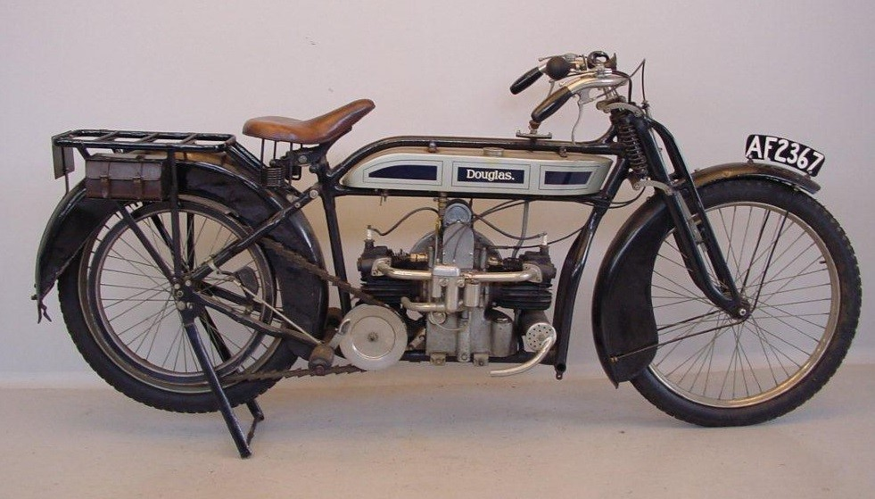 1914 Douglas Model A 3½_HP side valve motorcycle